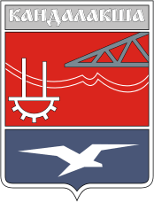 Kandalaksha (Murmansk oblast), coat of arms (1971)